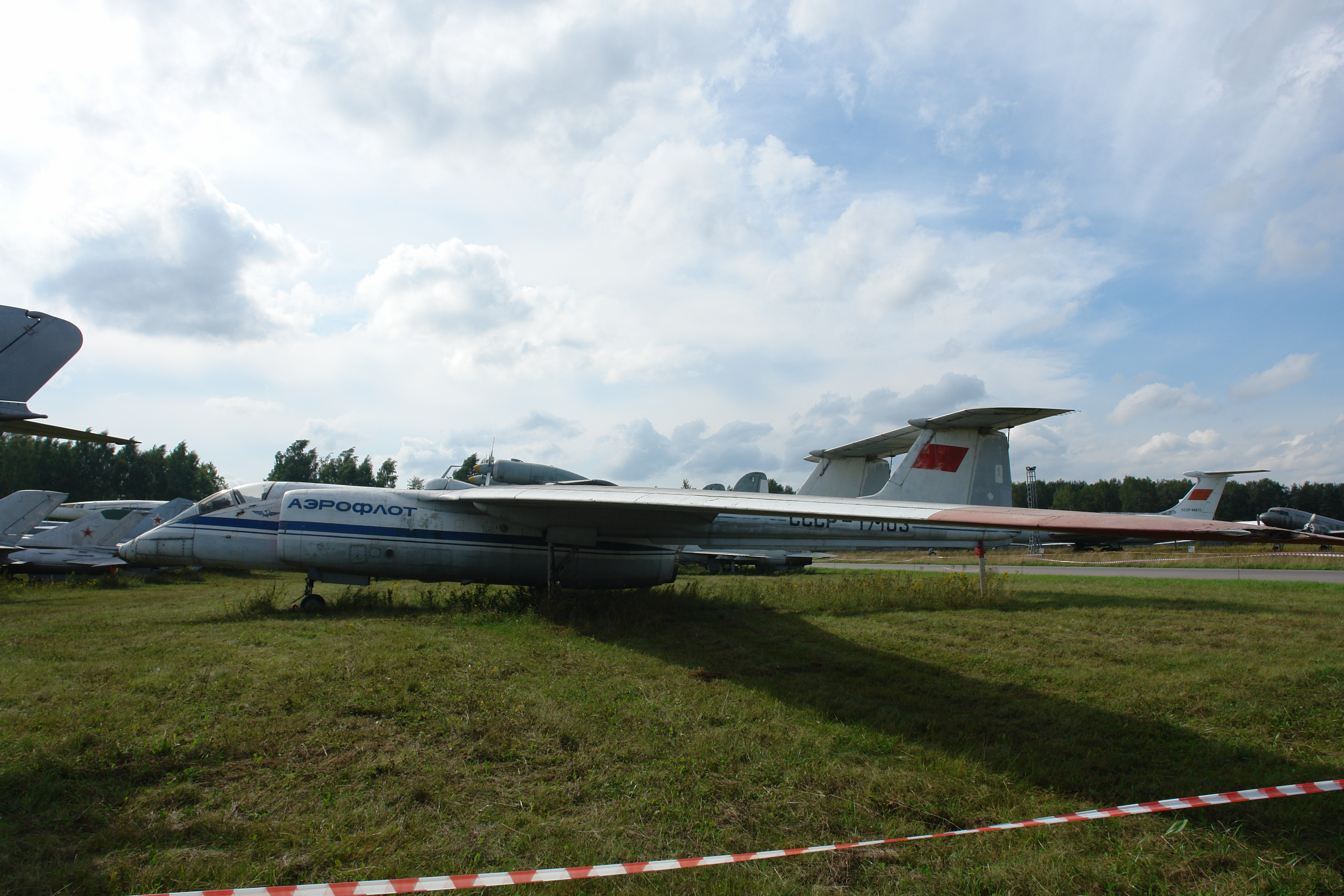 M-17 Experimental High-Altitude Aircraft at Monino Central Air Force Museum (Moscow)